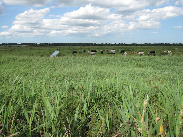 Buckenham Marshes Grazed by cows in the summer to help produce good grazing for ducks and geese in the winter.